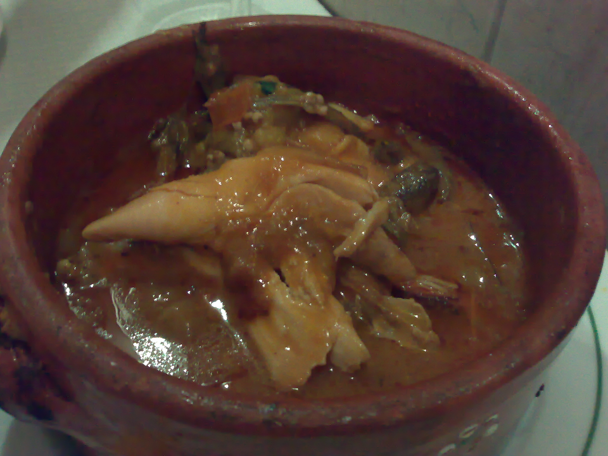 Muamba, a typical dish from Angola (photographed in Lisbon, Portugal).